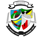 Coat of arms of the city of Maquiné, Rio Grande do Sul, Brazil.